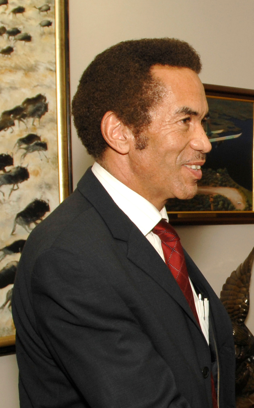 Botswana President, Ian Khama - Vice President at the time of the photo - during the visit of U.S. Army Gen. William Ward, commander of the U.S. Africa Command, to Gaborone, Botswana, Dec. 3, 2007. (U.S. Air Force photo by Tech. Sgt. Nic Raven/Released) - cropped image.